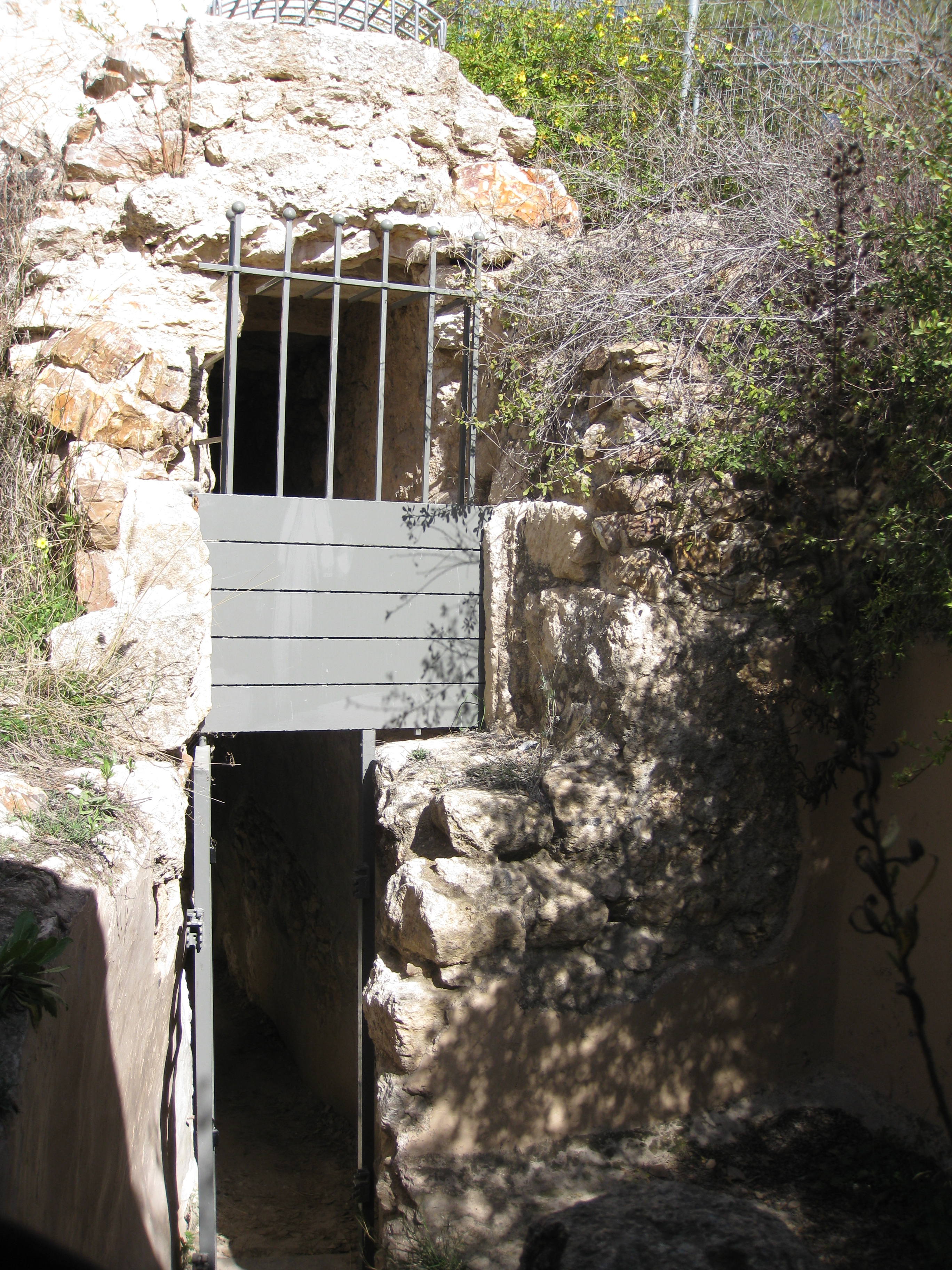 The Lower Aqueduct